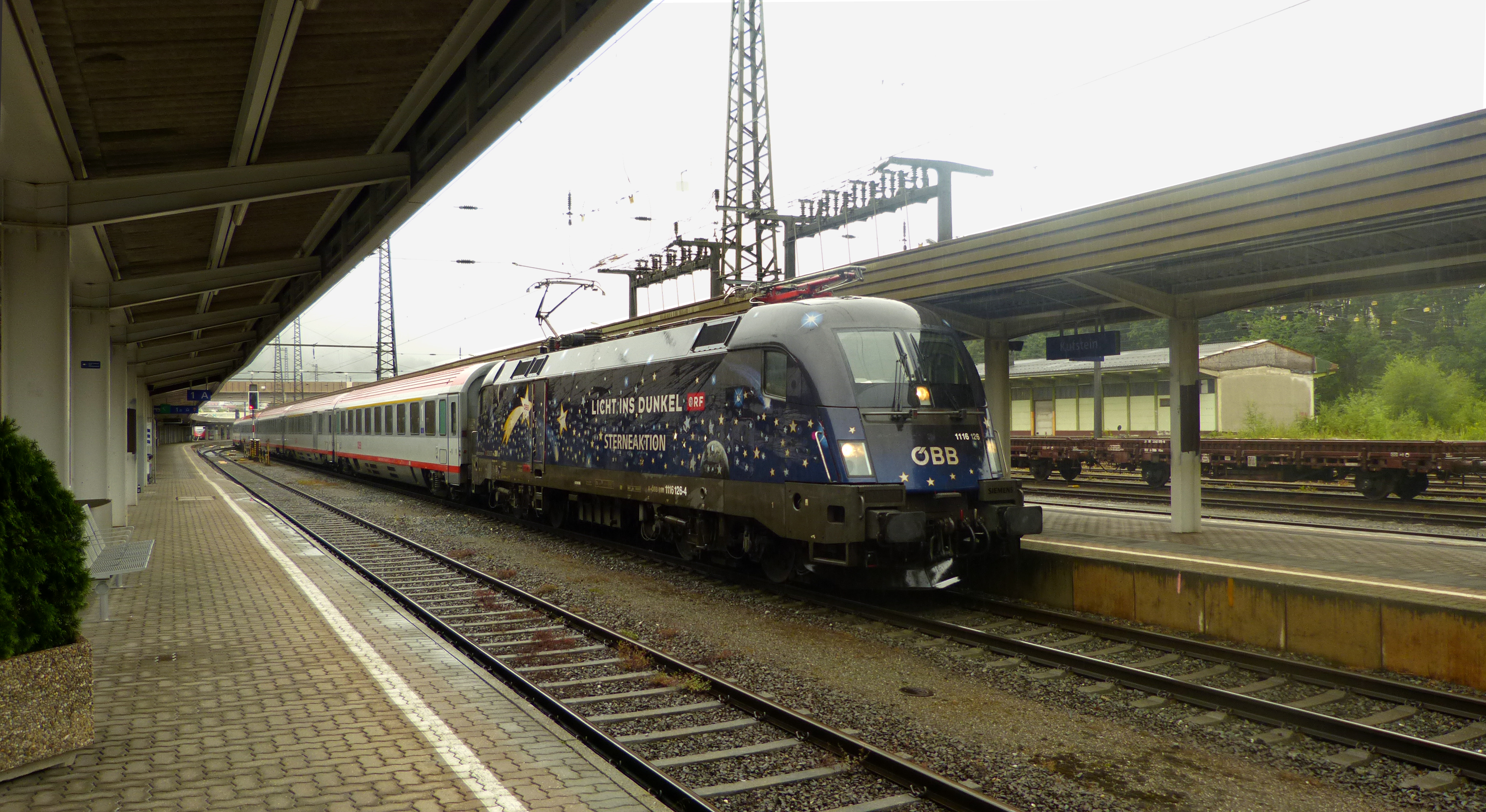 Austrian electro locomotive 1116 126, Typ ES 64 U2 at Kufstein trainstation, Austria.